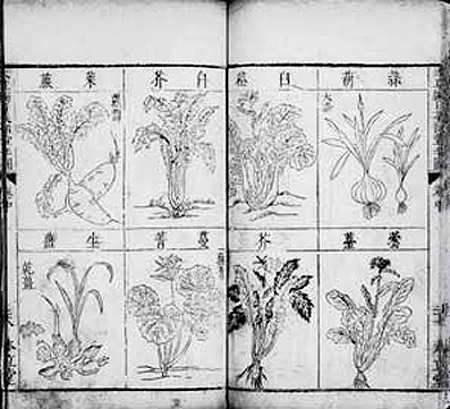 Illustration from Compendium of Materia Medica (1717 edition)